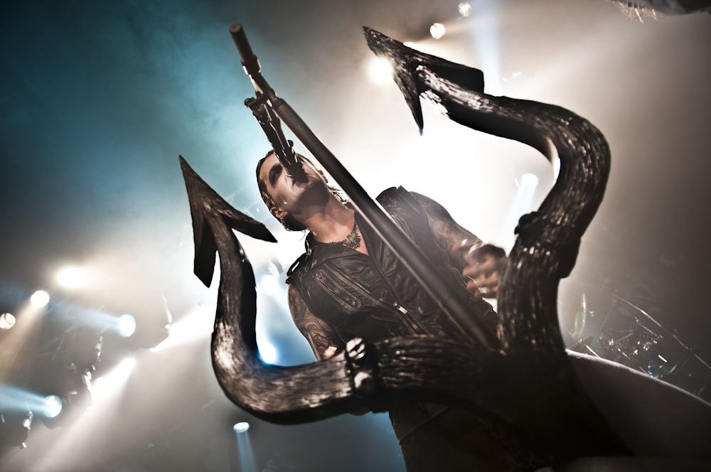 Satyricon live at Hole In The Sky 2011